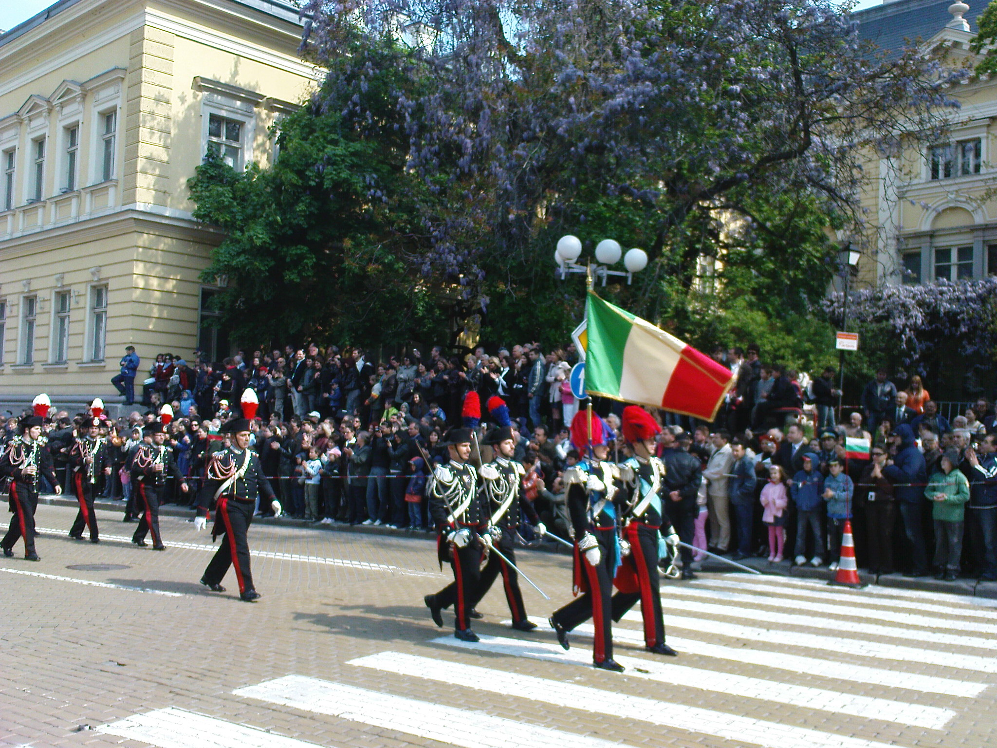 An Italian parading unit on Army day parade in Sofia